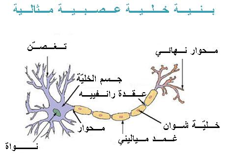 translated image into Arabic from Image:Neuron.jpg original english